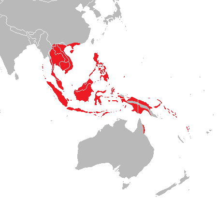 Map of the natural distribution of the genus Kopsia (Apocynaceae)